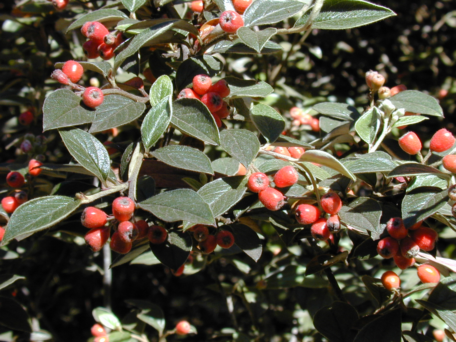 Cotoneaster pannosus (fruits and leaves). Location: Maui, Polipoli